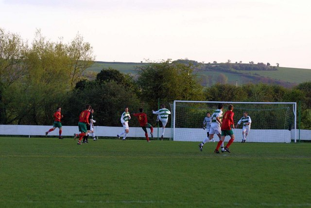 Alfredian Park in Wantage